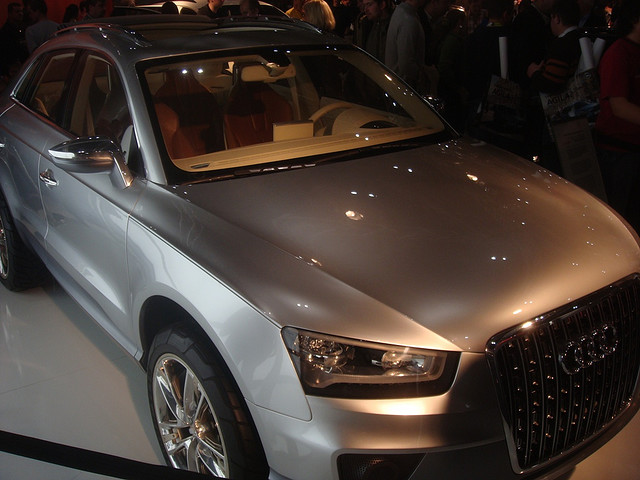 Front view of the Study for the Audi Q3, the Audi Cross Concept